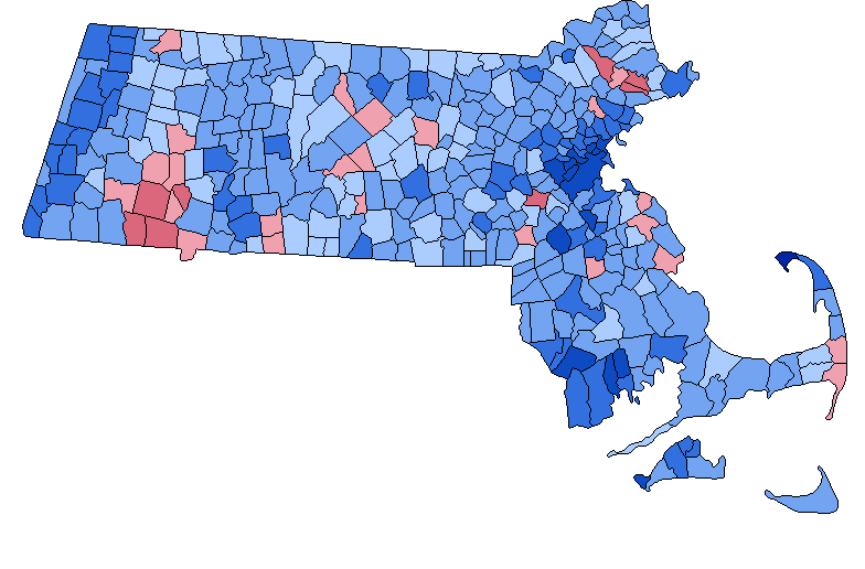 Massachusetts presidential election results by town, November 2000